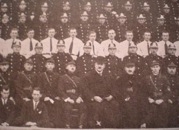 Richard Bienert (1881-1949) as police president of Prague, in 1923.